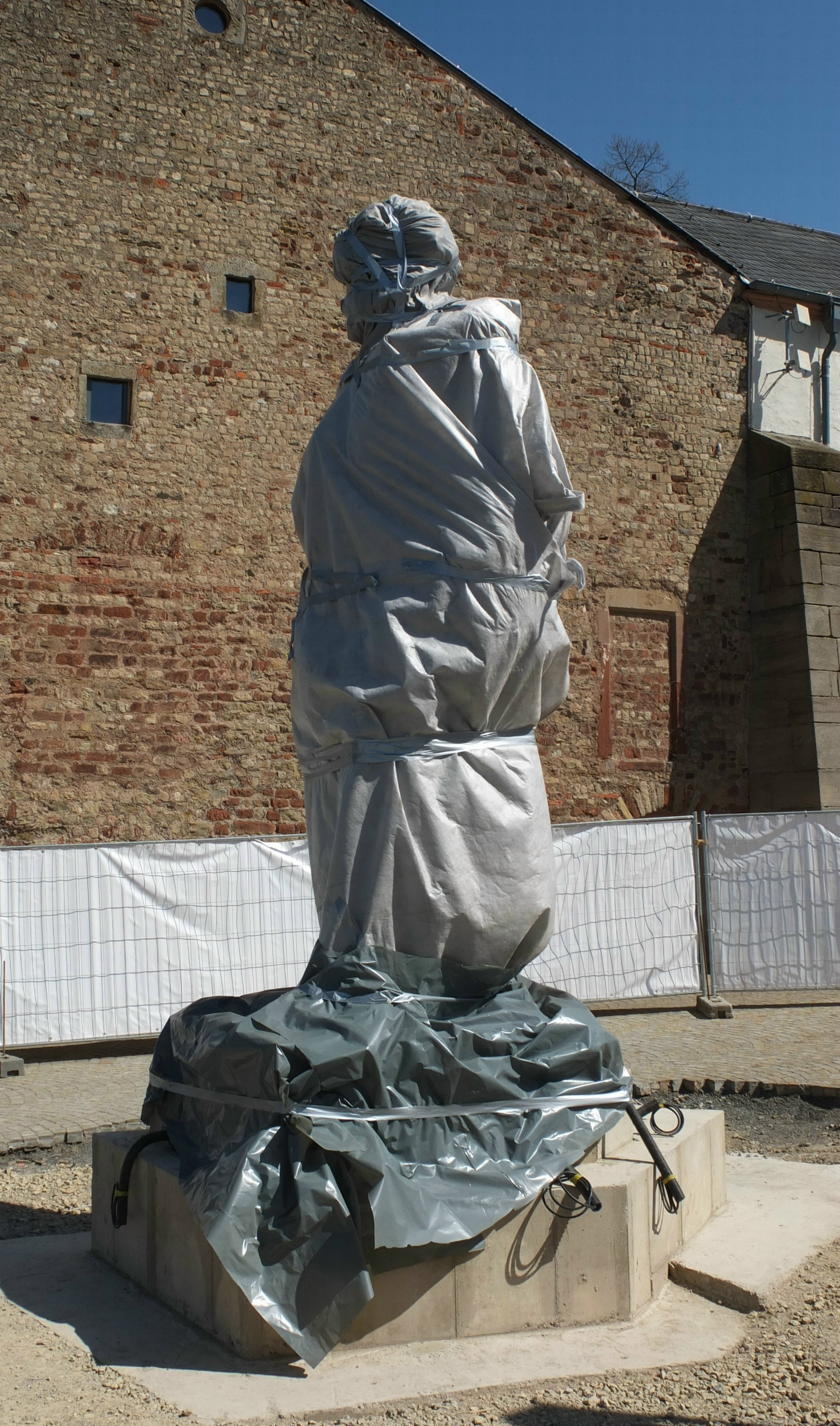 Veiled monumental bronze statue of Karl Marx in Trier, Germany. The 4.4 metres (14 feet) high statue of was created by Chinese artist Wu Weishan and donated by China to Marx's hometown in honour of the philosopher's 200th birthday. It was erected on April 13 and unveiled on May 5, 2018.